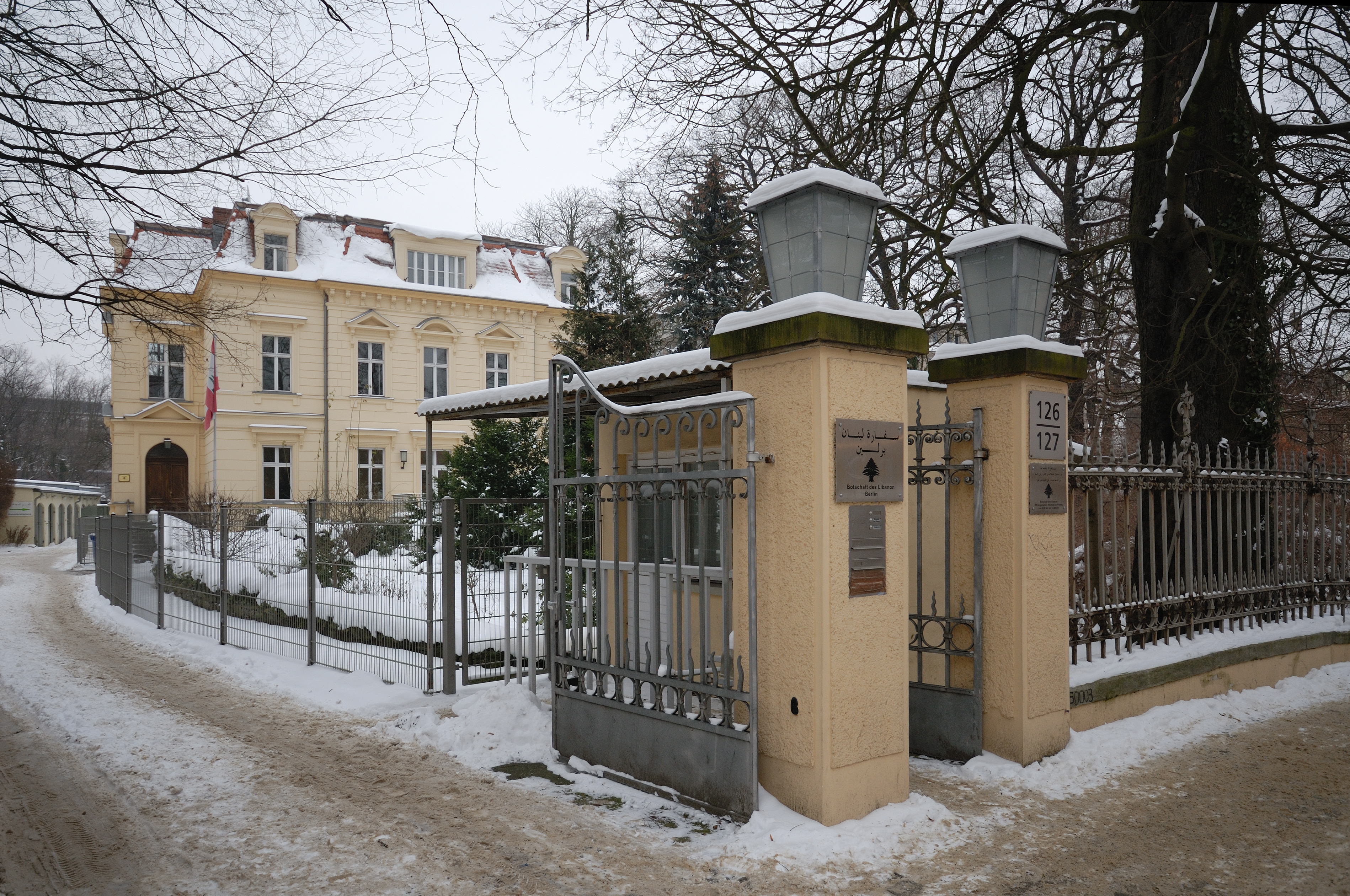 Villa Garbáty in Berlin-Pankow.